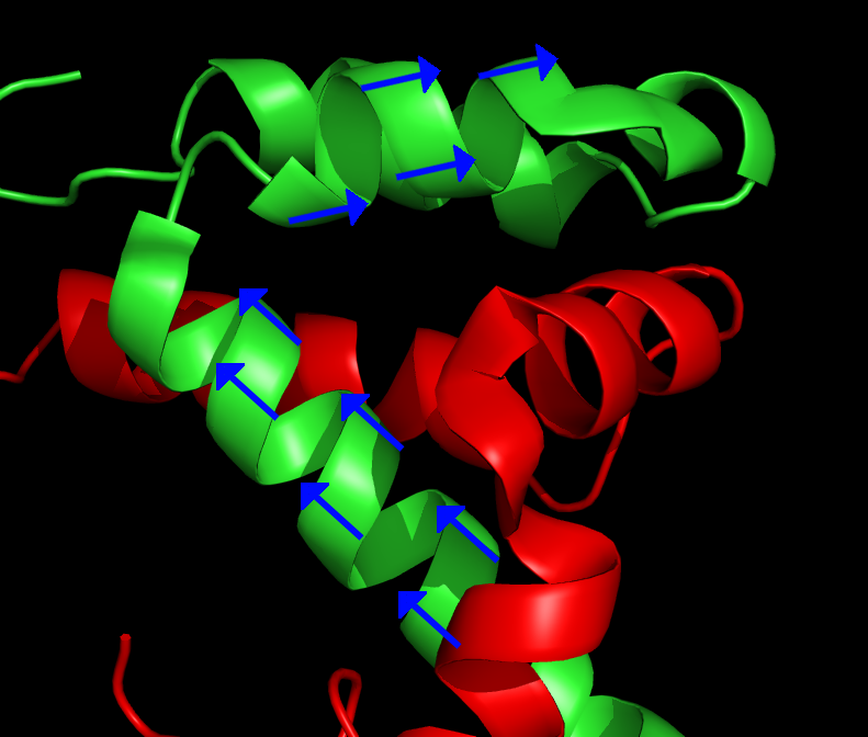 Illustration of how RDC's can be used to determine protein structure. See wikipedia page about Residual dipolar couplings for more details. Generated from PDB fil 1KBH and edited with PyMol and The GIMP